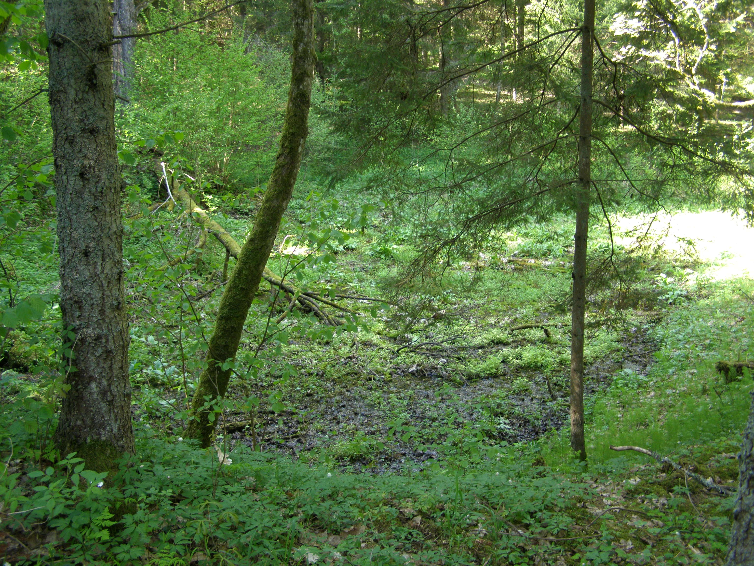 Biržuvėnai, Telšiai district, LithuaniaLietuvių: Biržuvėnų Laumės pėda, Telšių rajonas, Lietuva